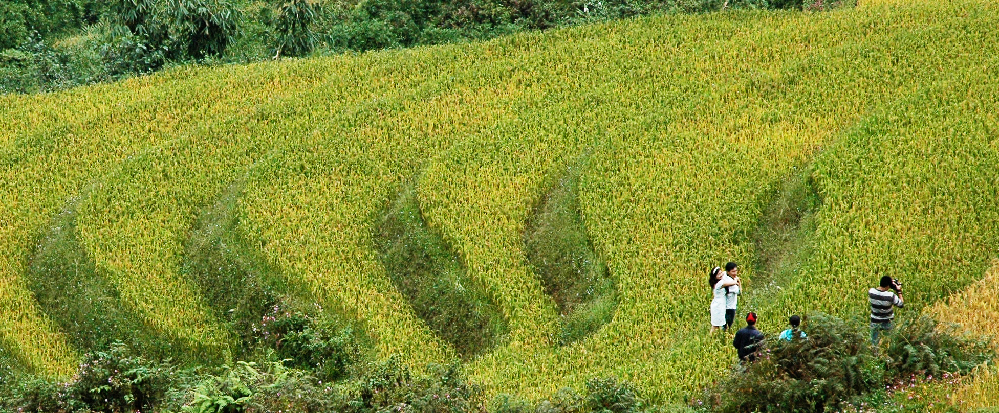 Rice Terrace in Lao Cai Province, Vietnam